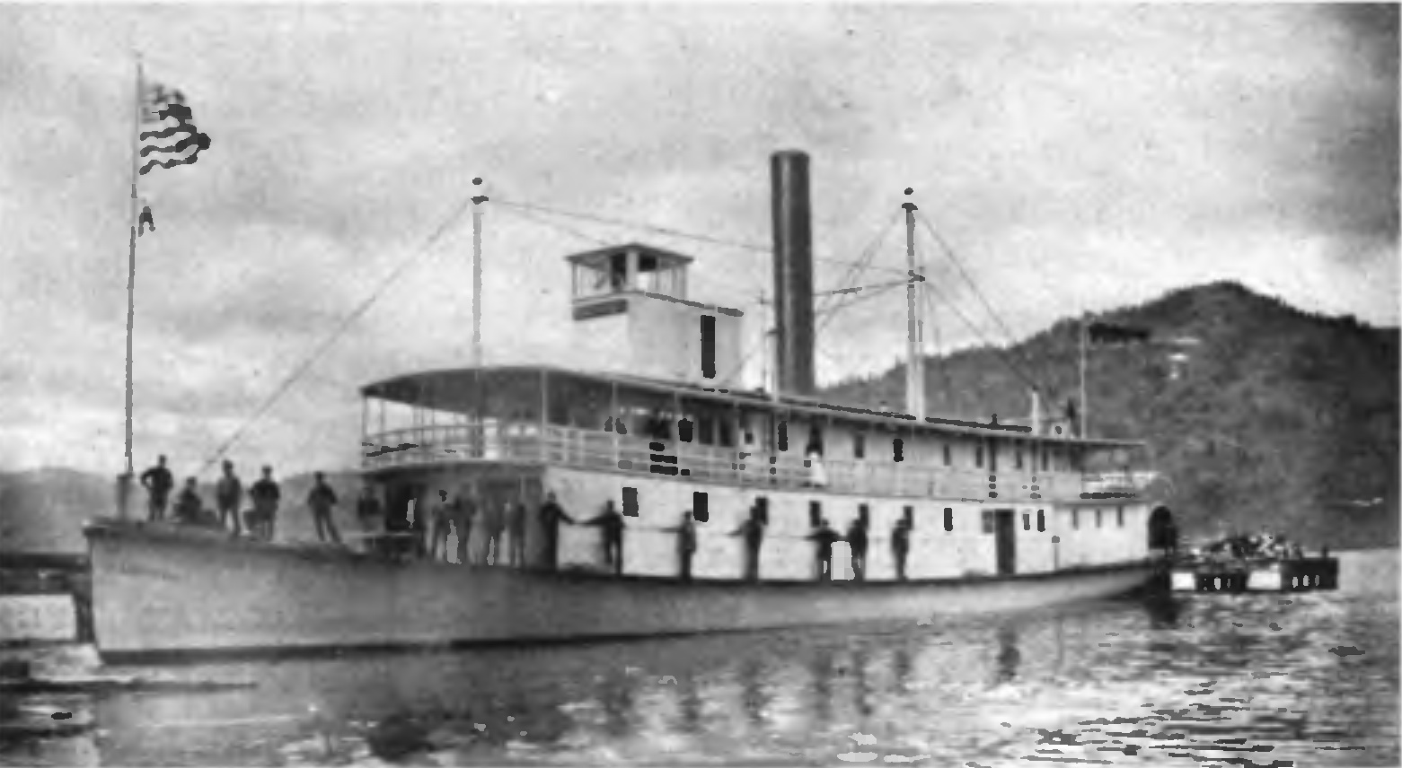 photograph of Aberdeen sternwheeler on Okanagan Lake, British Columbia